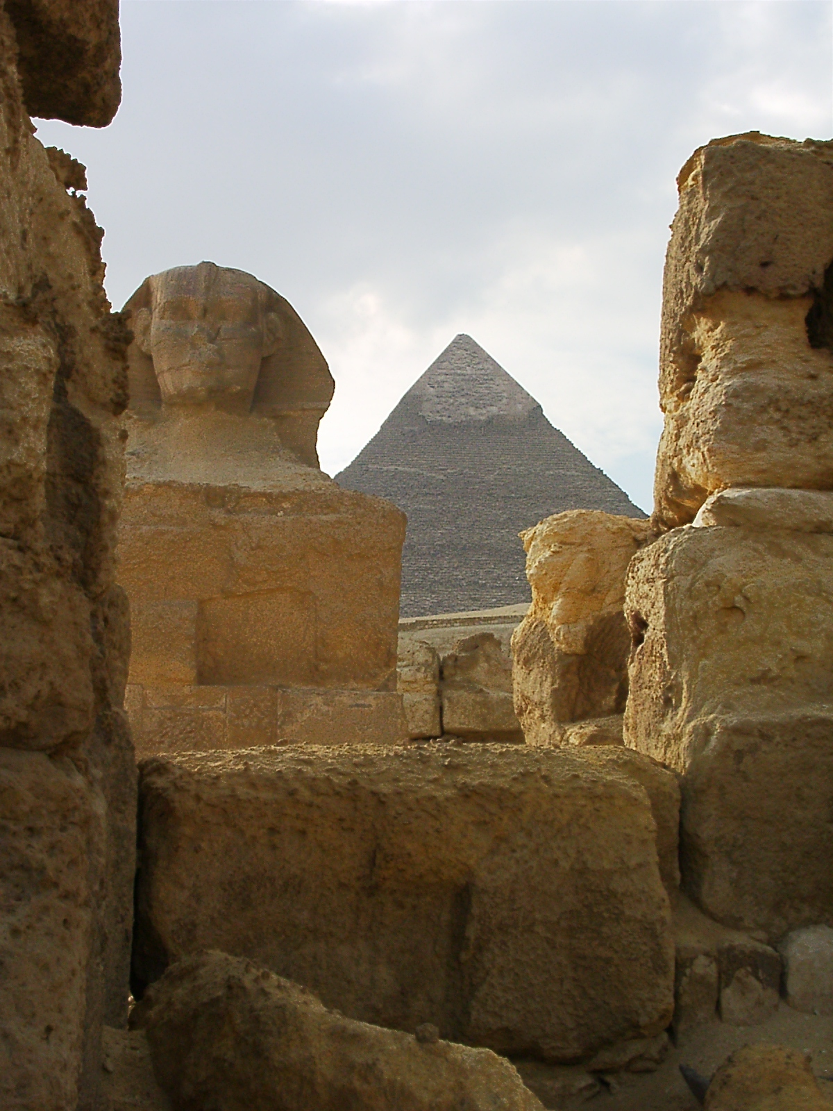 Khafre's pyramid, framed by the Great Sphinx and the Sphinx Temple